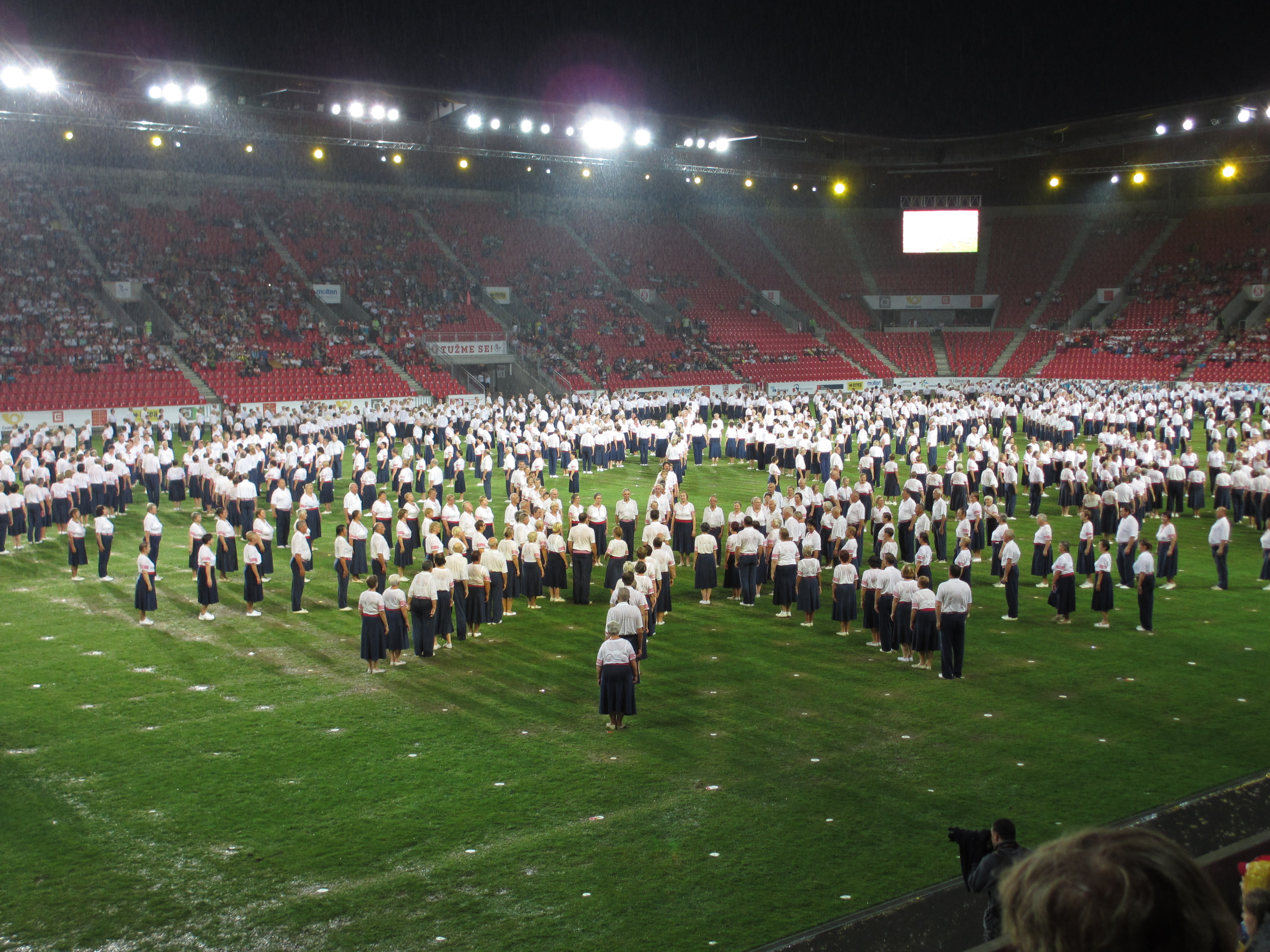 Gathering of Czech sport club Sokol called "XV. sokolský slet", Stadion Eden (called in 2012 Synot Tip Arena), Prague, Czech Republic